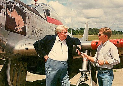 Wade Meyers (right) interviews famous World War II and Korean War ace William T. Whisner (left), about his more famous exploits. As "crew chief" of their P-51D Mustang in the background, Meyers painted the RIDGE RUNNER nose art and kill markings on the engine panels.